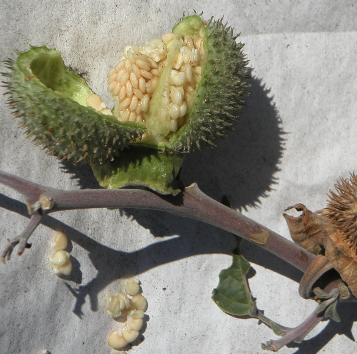 Fruit of a Datura plant, broken open to show seeds. Picked from the wild in California, so possibly Datura wrightii.